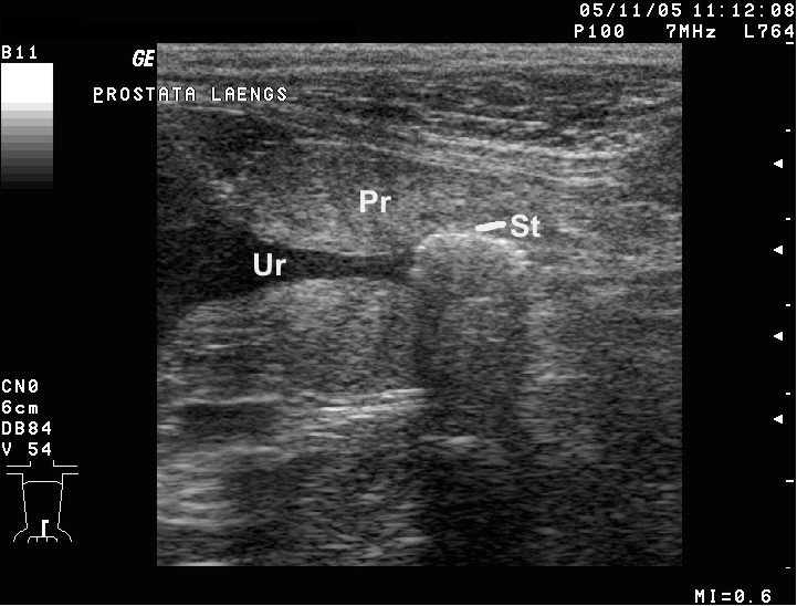 Sonographic view of an intraprostatic urolithiasis in a dog. Pr - Prostata, Ur - Urethra and urinary bladder, st - urine concrement, conclusing the urethra